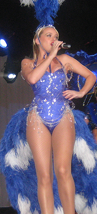 Lucy Holmes, a Kylie Minogue impersonator dressed in a blue showgirl outfit.